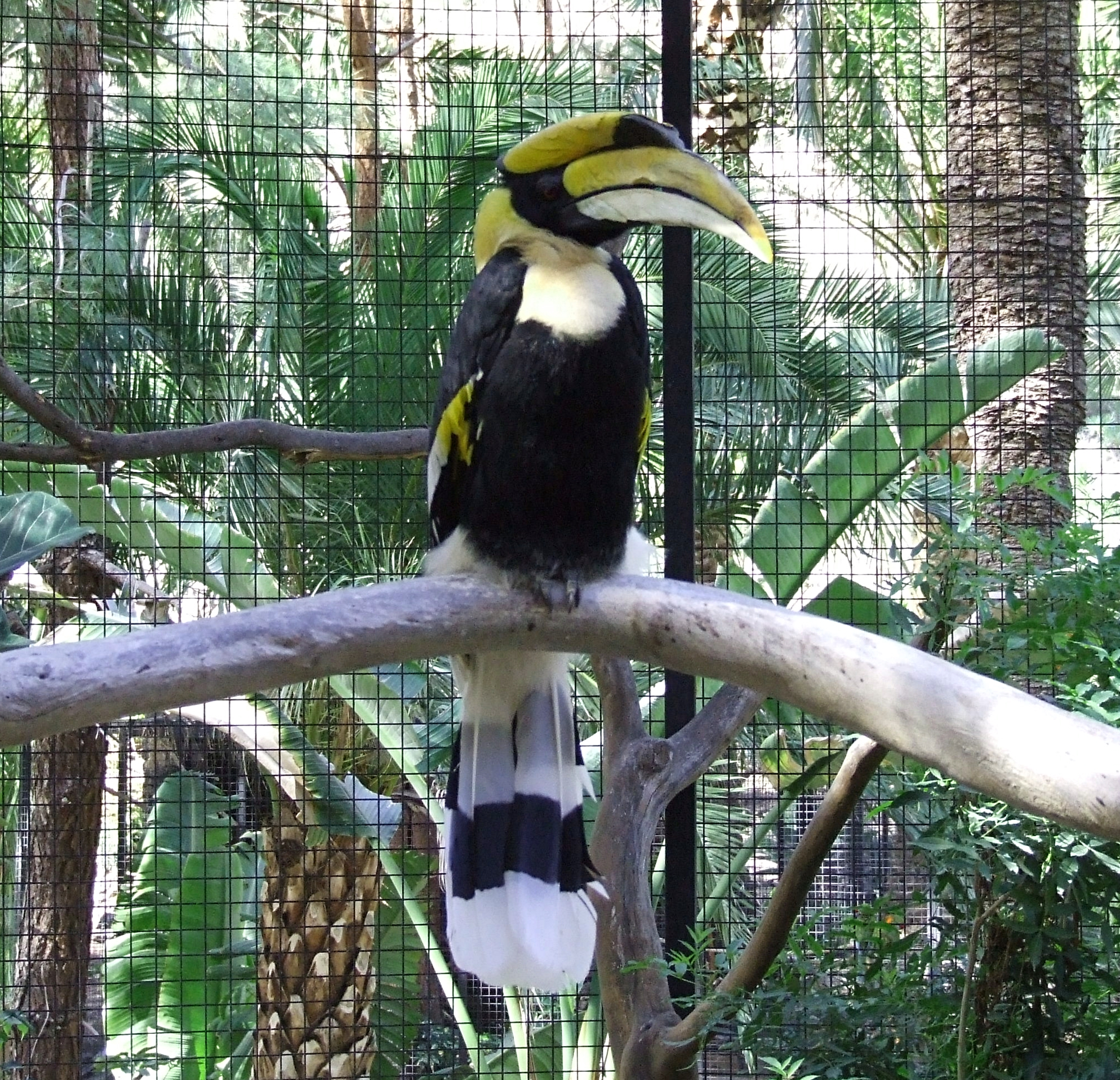 Great Hornbill (also known as Greater Indian Hornbill and Great Pied Hornbill) at Palmitos Park, Gran Canaria, Spain.